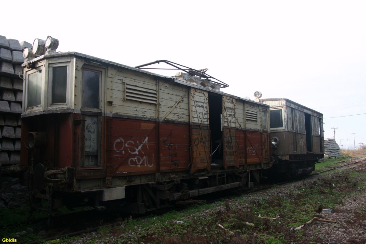 Greece EIS/ISAP (Electric Railways Athens-Piraeus) withdrawn rail work emus at old station of Eleonas near Thiva.